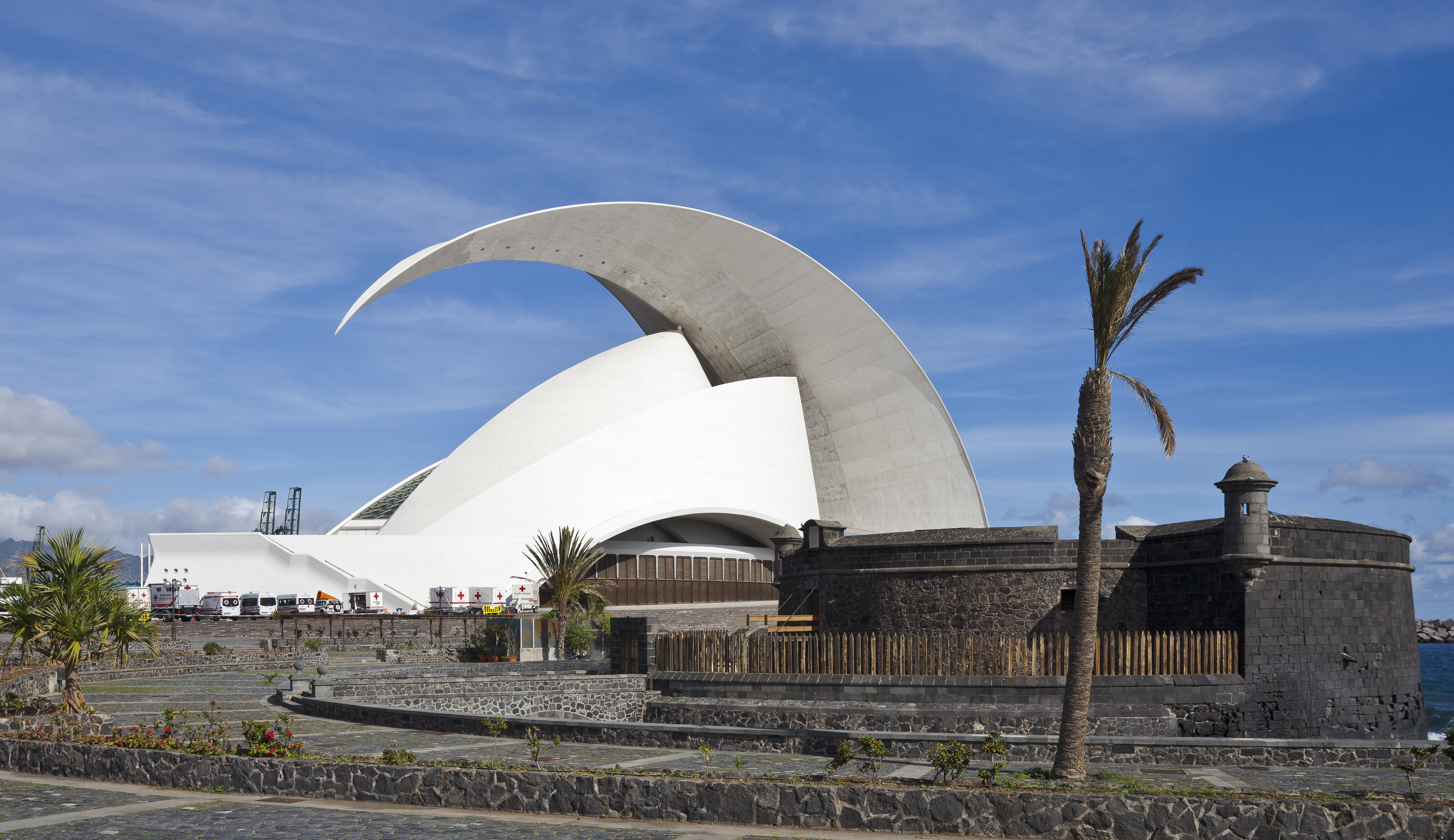 Auditorium of Tenerife, Santa Cruz de Tenerife, Spain